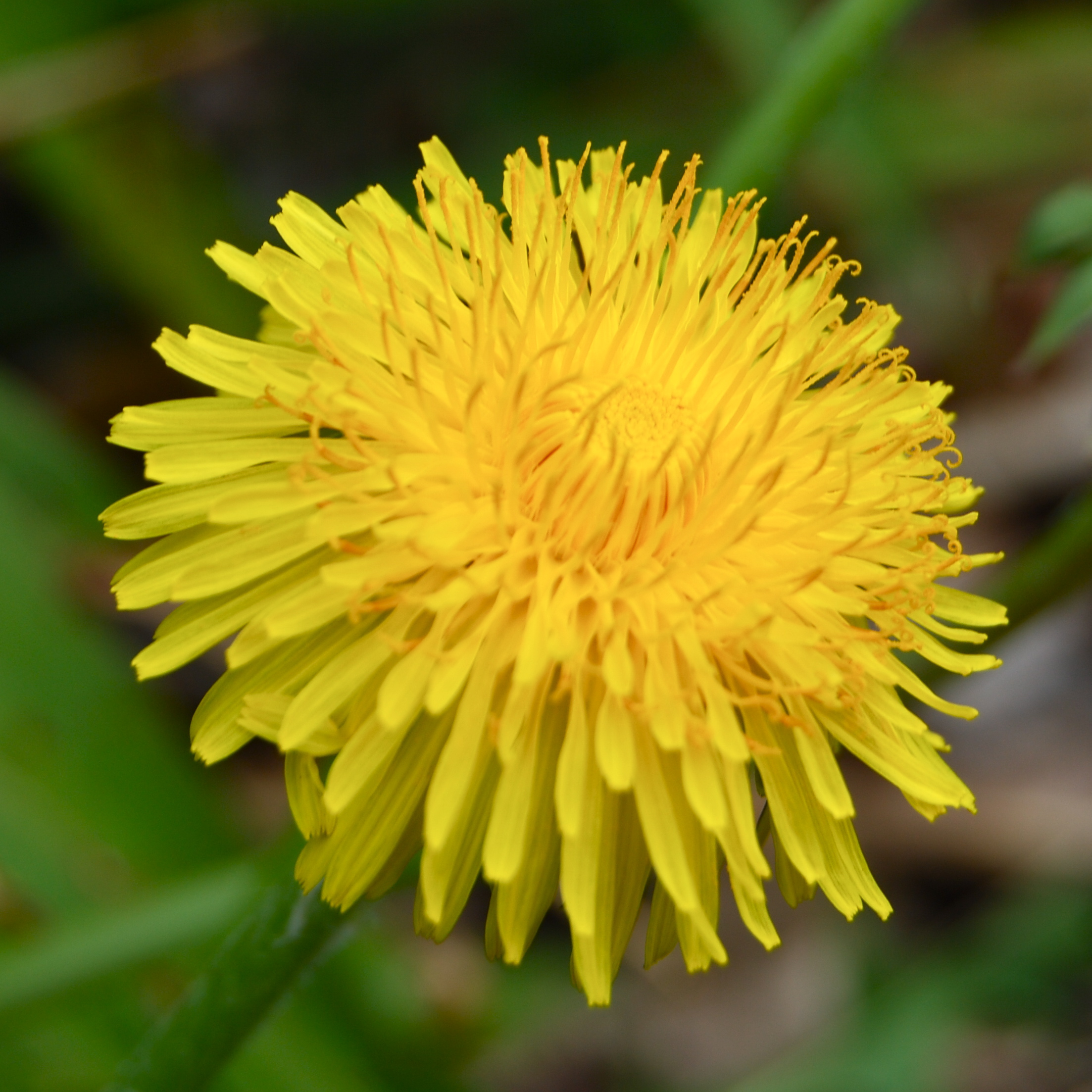 Common dandelion, a weed; this specimen found in upstate New York